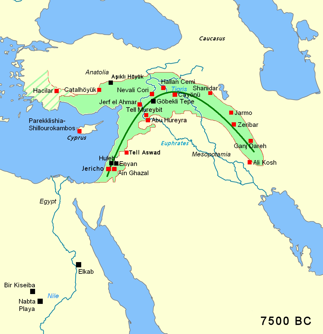 Fertile crescent Neolithic B circa 7500 BC